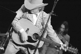 Dwight Yoakam